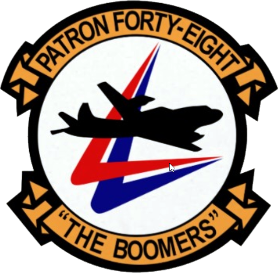 Unofficial insignia of the U.S. Navy Patrol Squadron 48 (VP-48) "Boomers" in the 1980s.